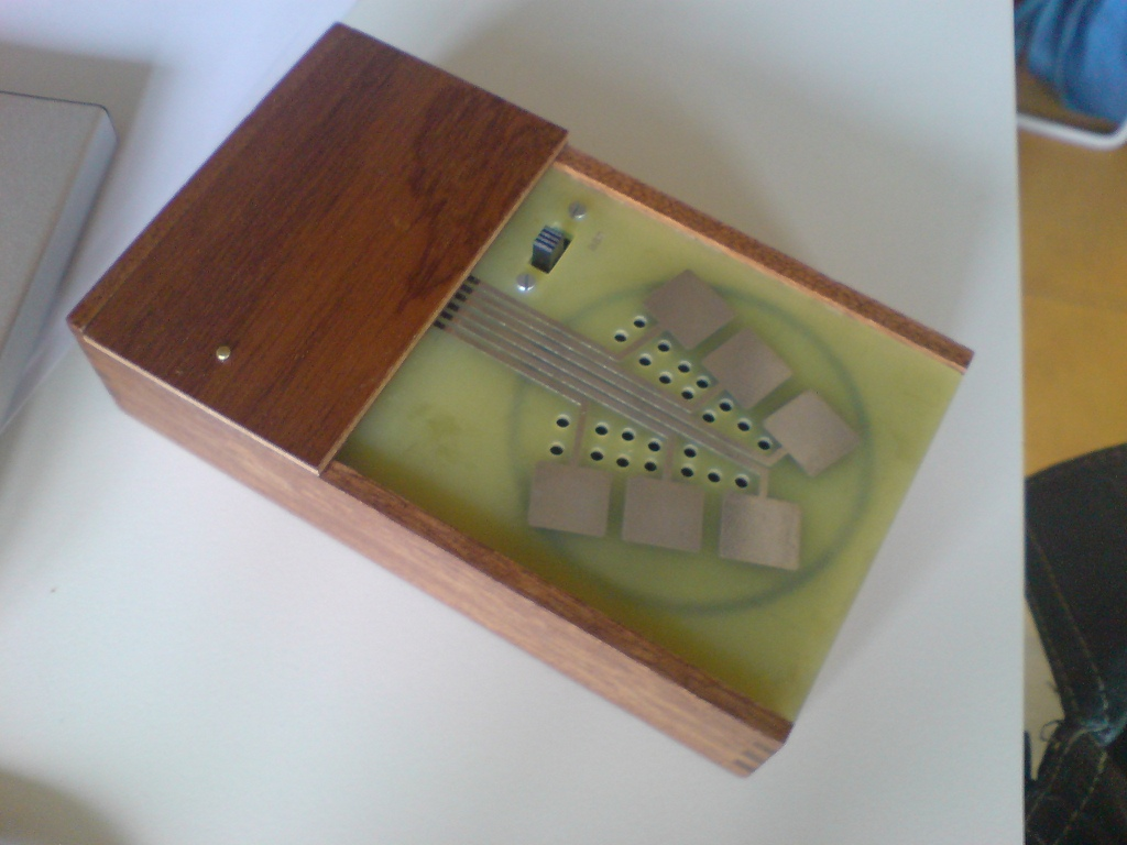 Kraakdoos (or Cracklebox) at Dorkbot CPH